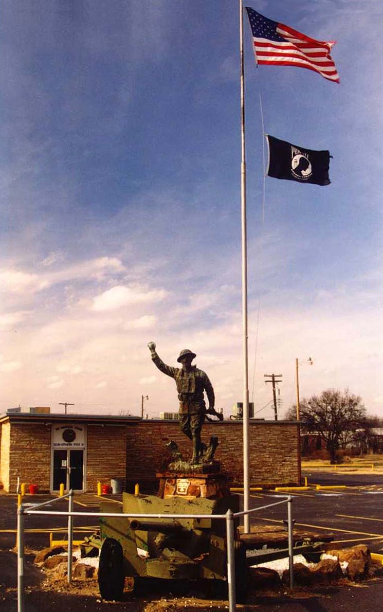 Doughboy World War I memorial in Fort Smith, Arkansas